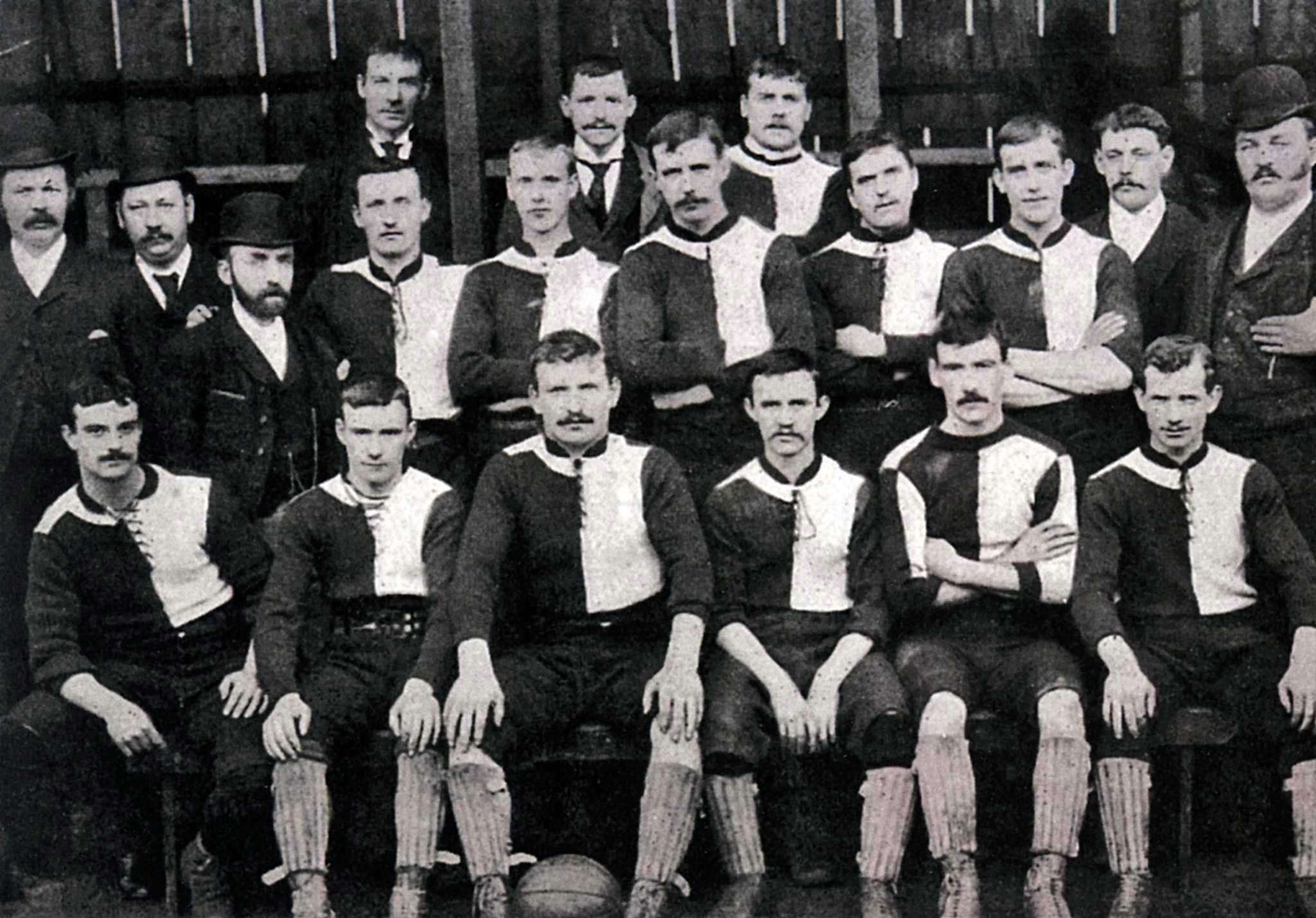 Newton Heath FC (current Manchester United FC) team for the 1892-93 season.